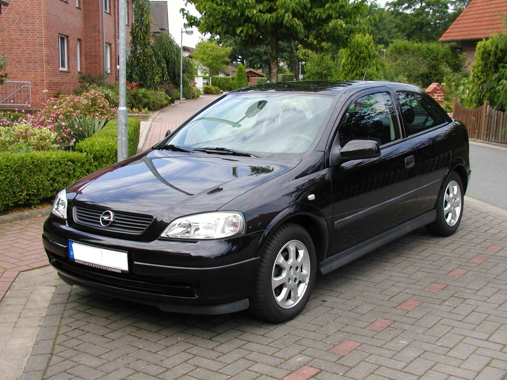 Astra G CC 1.6 - 16v, 3-türer, 2002, Comfort, saphirschwarz-metallic own work, own car